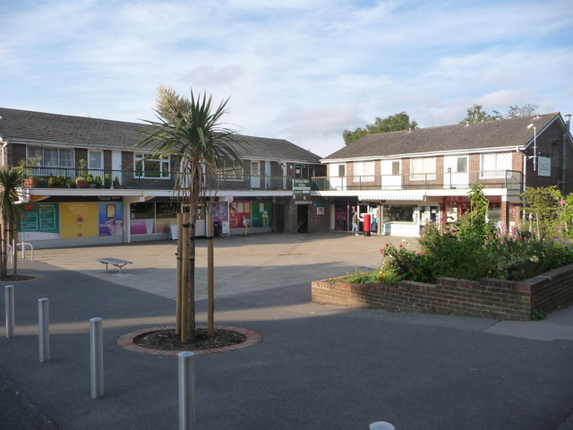 Merley: the shops A closer look at the shops at 1348763. The post office used to occupy the one with the postbox outside but it moved several years ago into the general store on the left.